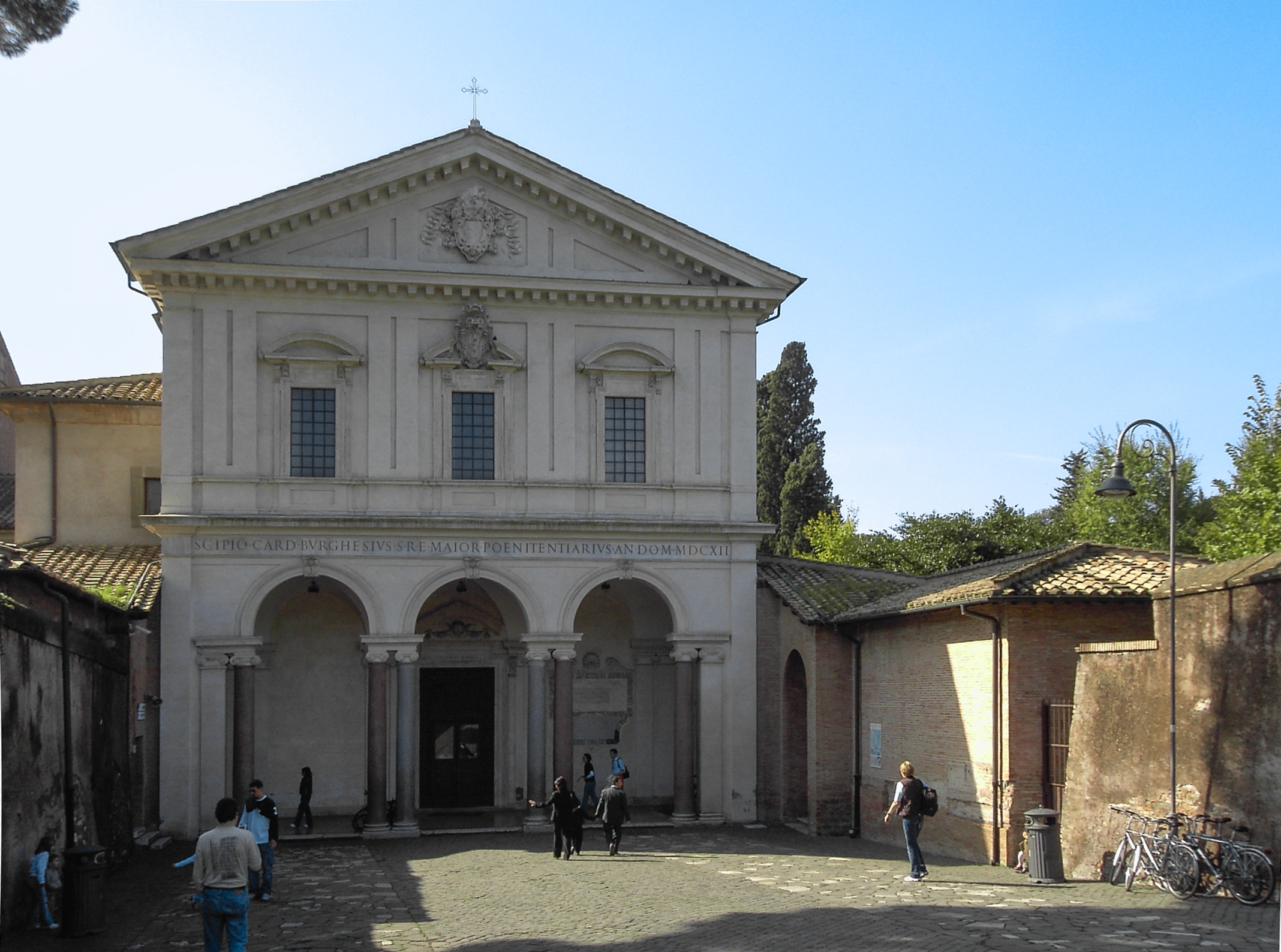 Rome, Appian Way, the Catacombs of San Sebastian Basilica